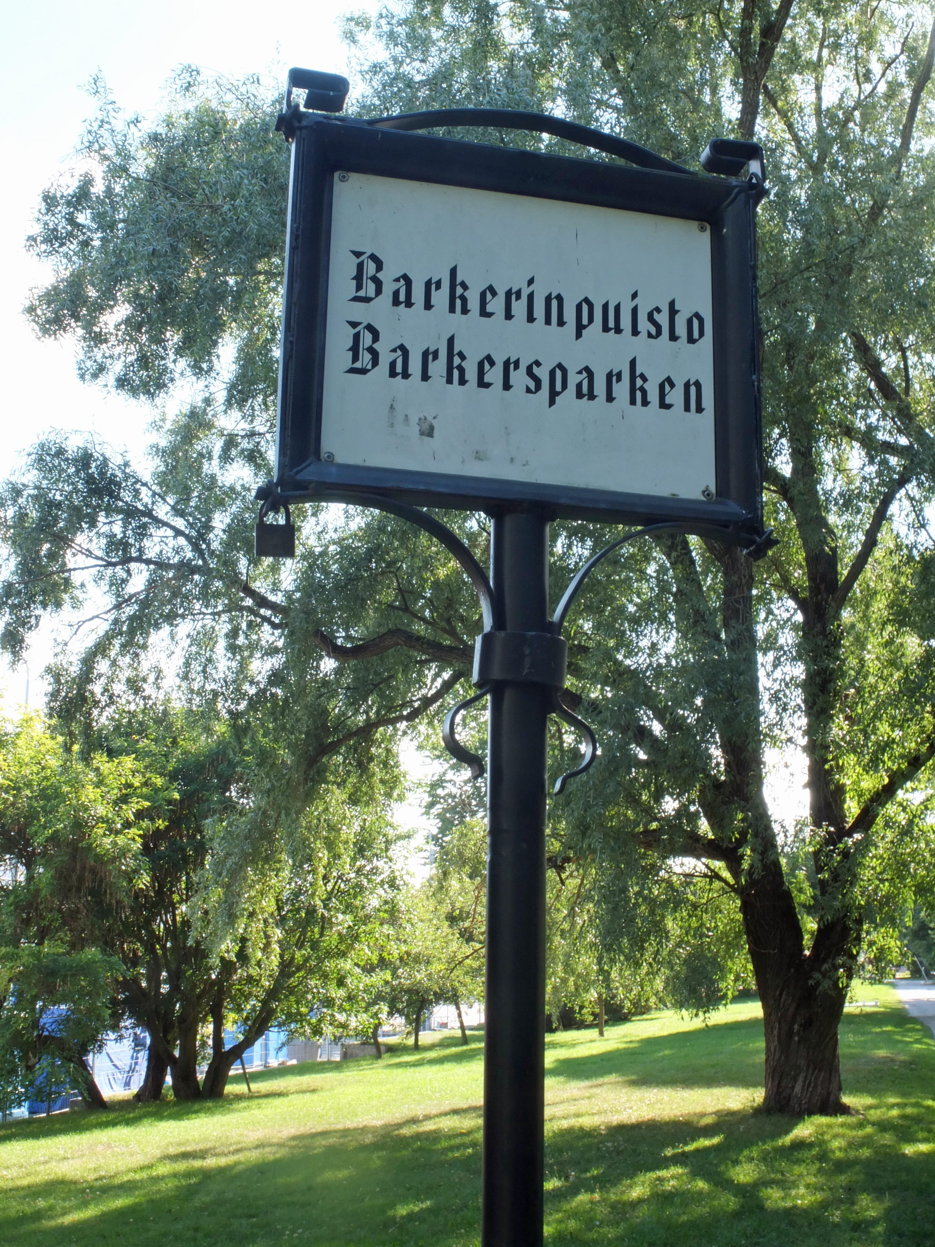 Barkerinpuisto, a park built where the old red-brick textile mills of the Barker company used to be, torn down in the 1960s. Linnankatu, Turku, Finland.